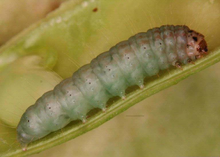 Larva of Limabean pod borer (Etiella zinckenella)